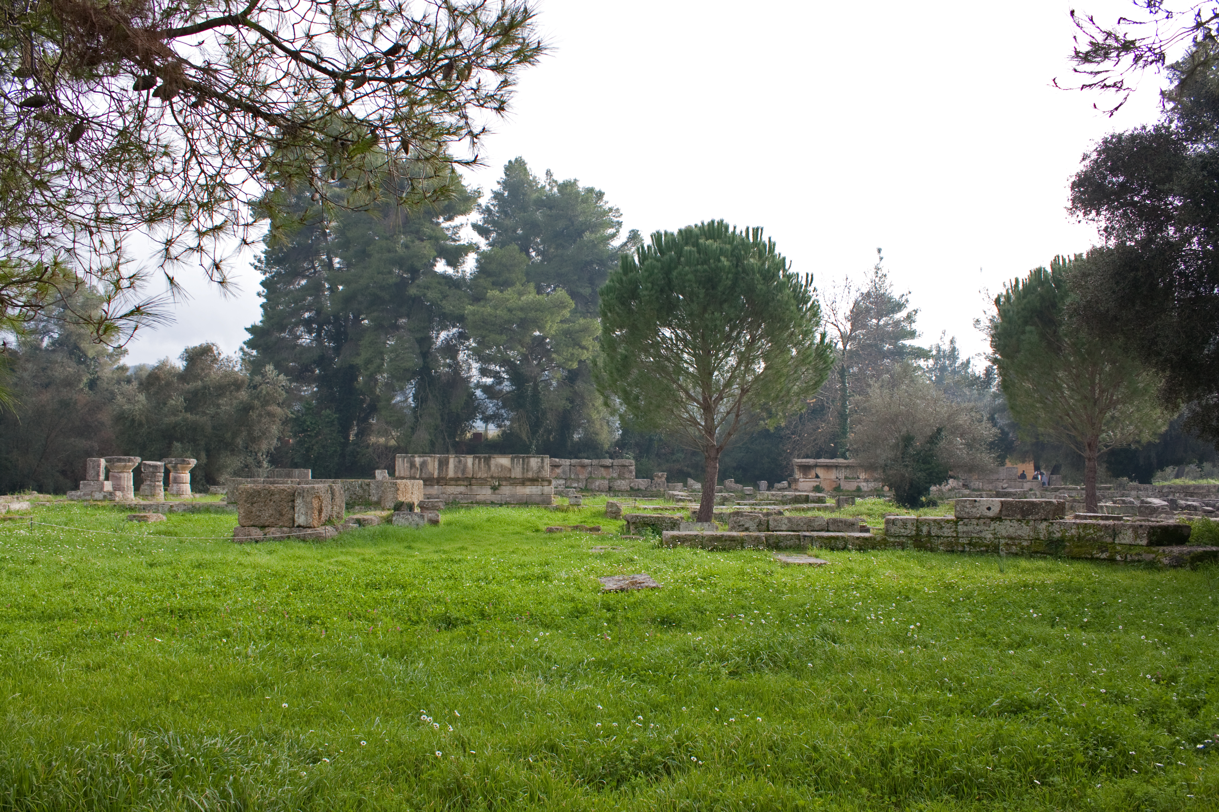 Southern Olympia, Greece near the Bouleuterion ruins.